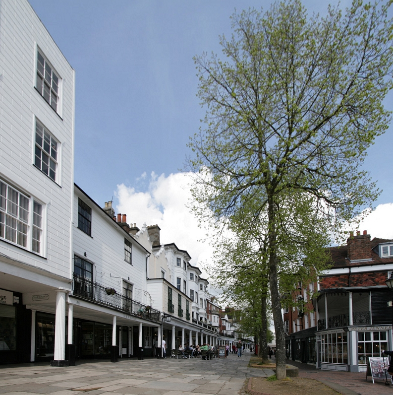 Pantiles, Tunbridge Wells, taken on May 2, 2008